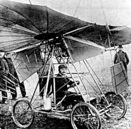 Traian Vuia's flying machine 17:17, 17 December 2003 User:Bogdangiusca 300×293 30 KB Traian Vuia - aircraft